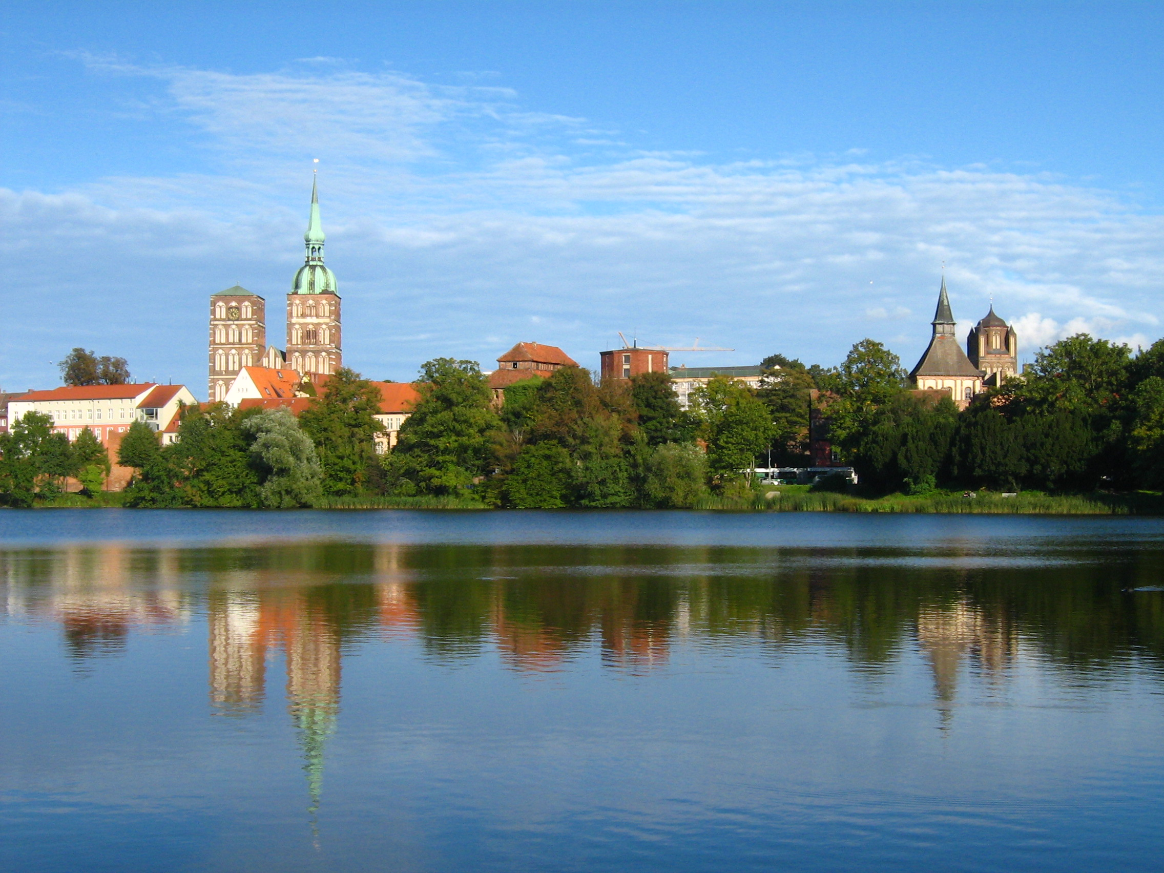 pond Knieperteich, Stralsund